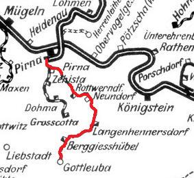 This image shows the course of the railway line from Pirna to Bad Gottleuba (detail of this map).